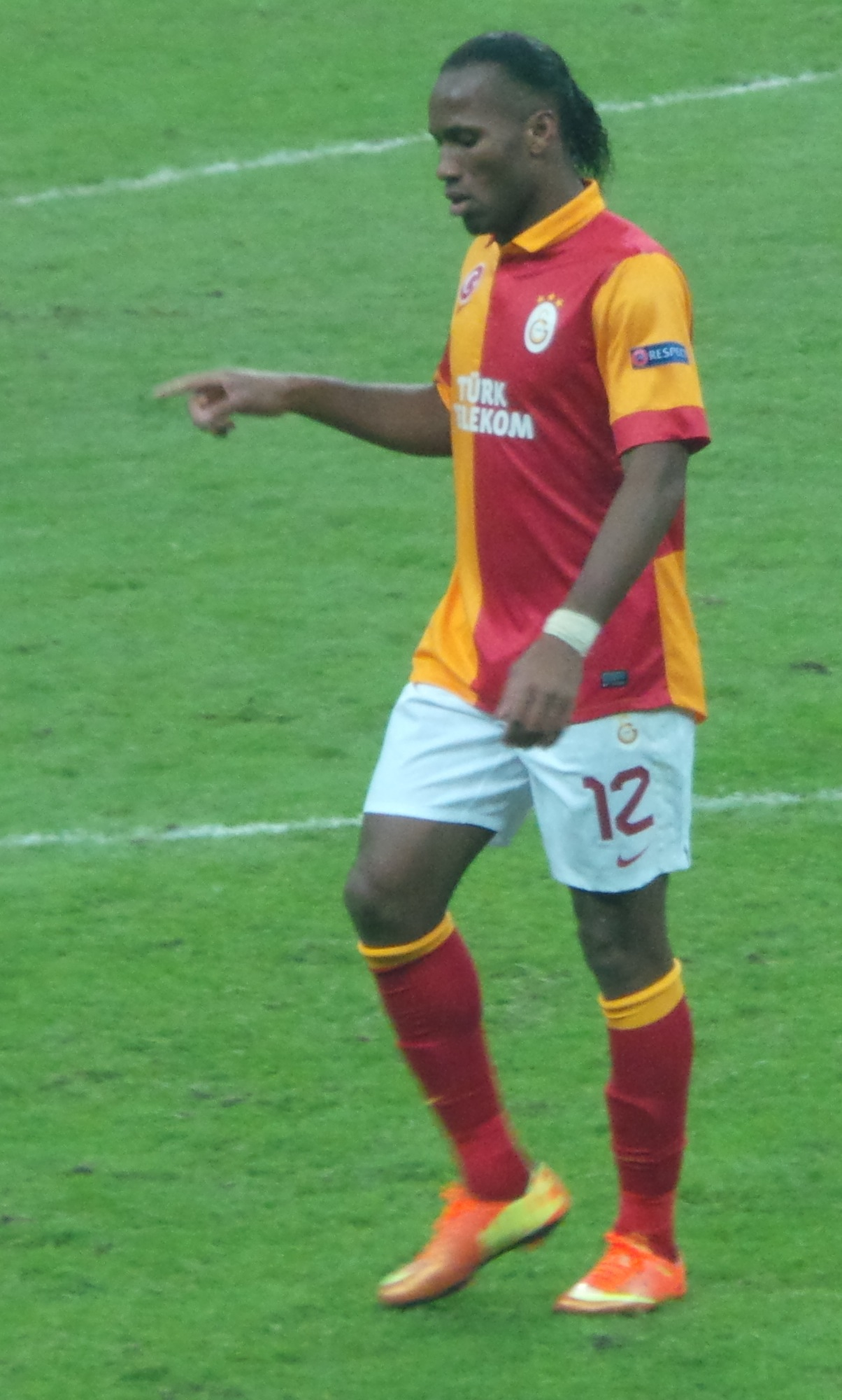 Drogba with GS kit against Schalke 04 20.02.13